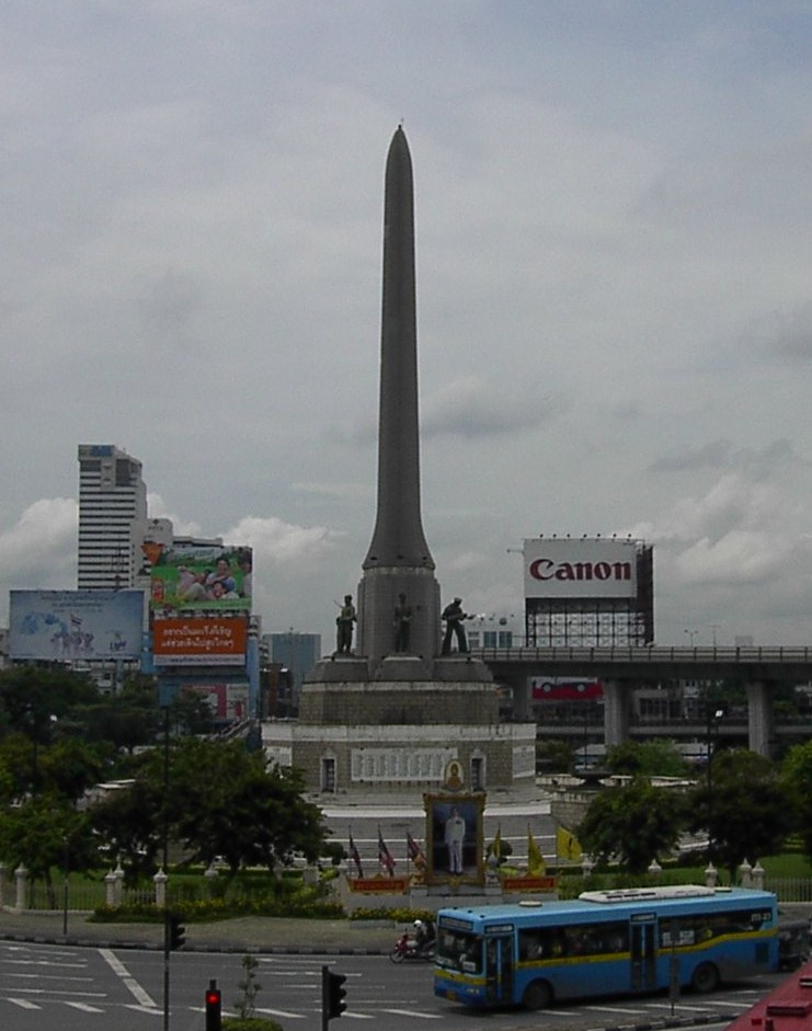 Victory Monument, Bangkok. Photo by User:Adam Carr, July 2006